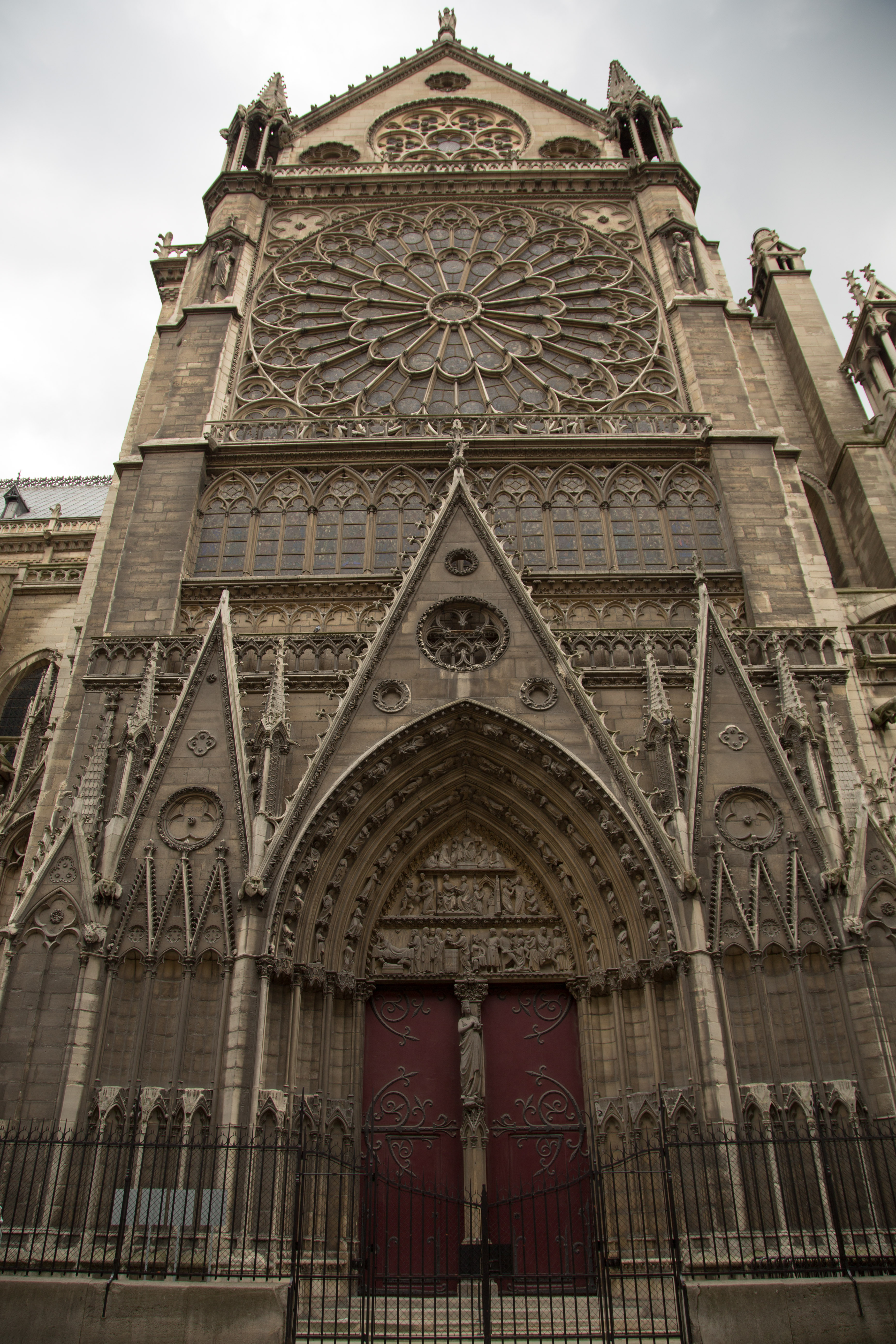 Notre Dame, Paris